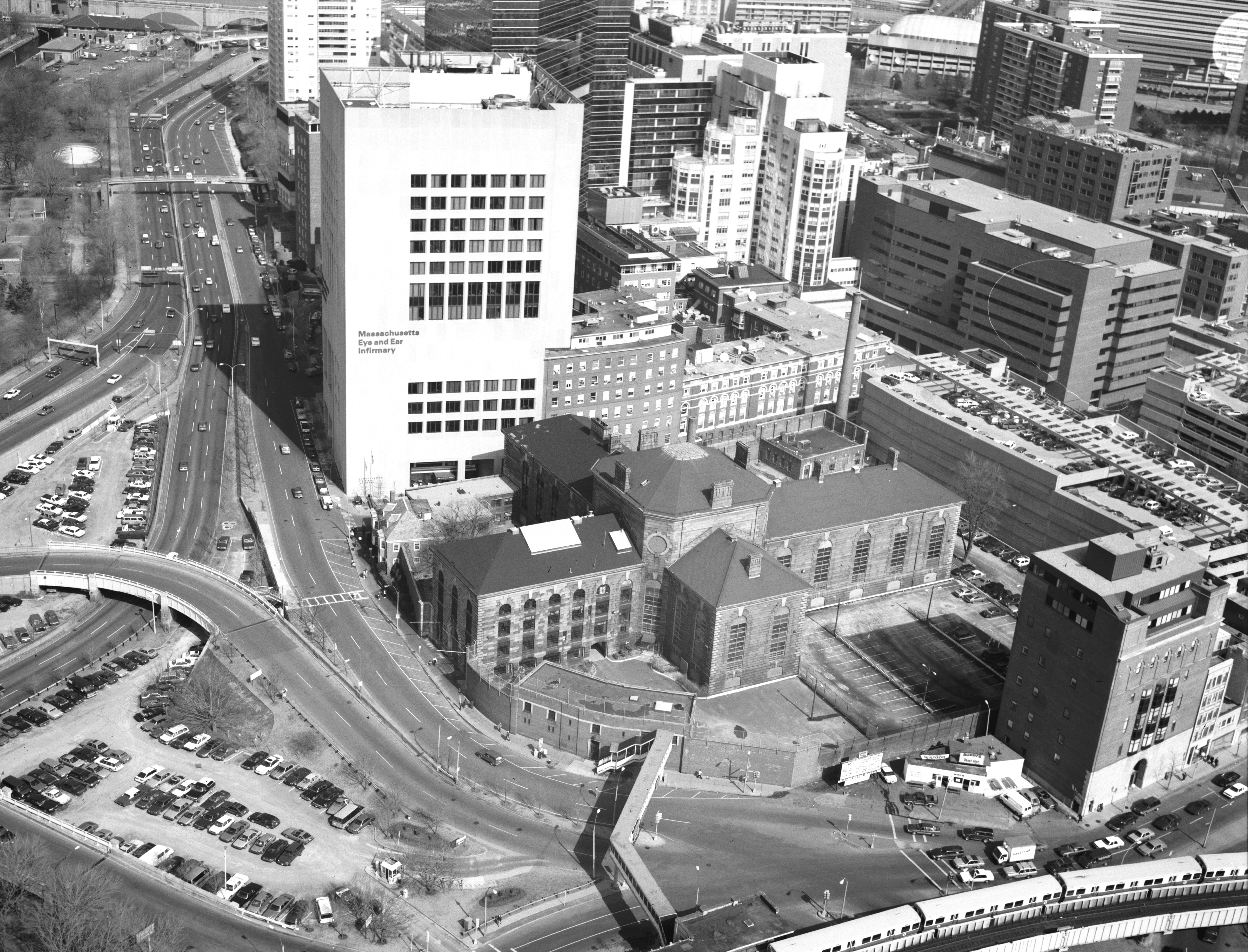 Aerial photograph of Charles Street Jail, Boston, Massachusetts. Architect Gridley James Fox Bryant.